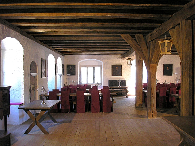 Pappenheim castle (Landkreis Weißenburg-Gunzenhausen, Middle Franconia, Germany). "Knights Hall" at the "Preißingerin House" at the bailey.